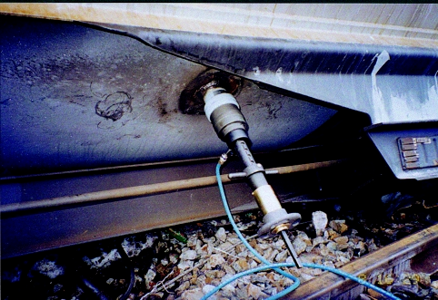 One of the welded vents on the damaged tanks. Picture from the official accident investigation report.